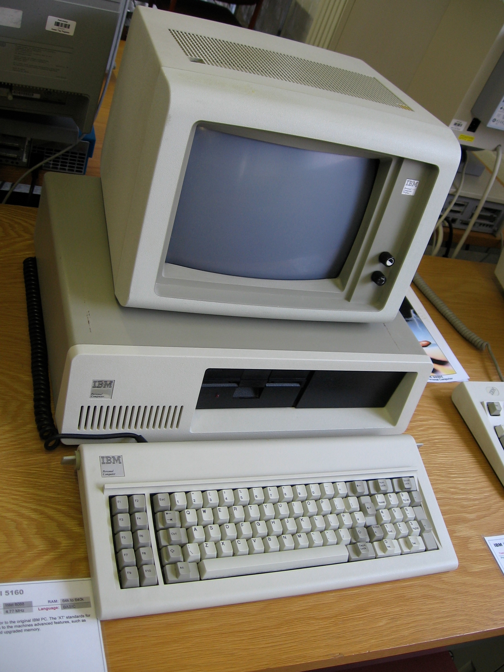 An IBM 5160 (PC XT) at National Museum of Computing, Bletchley Park, UK.